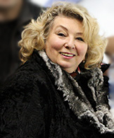 Tatiana Tarasova at the 2007-2008 Grand Prix Final